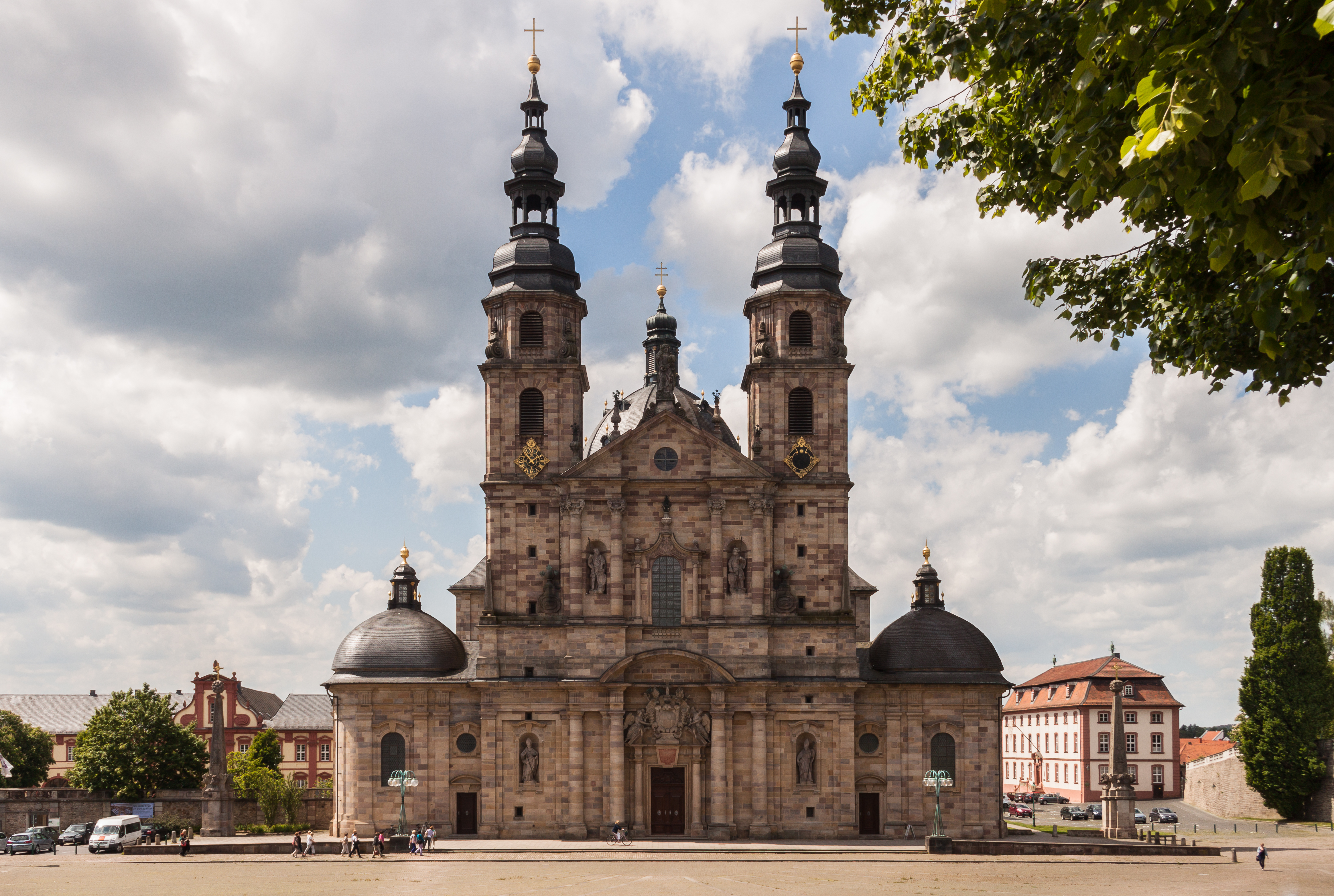 Front View of Fulda Cathedral. The Cathedral of St. Salvator Fulda is the sepulcher of St. Boniface. Since 1752 the cathedral is the church of the Diocese of Fulda.